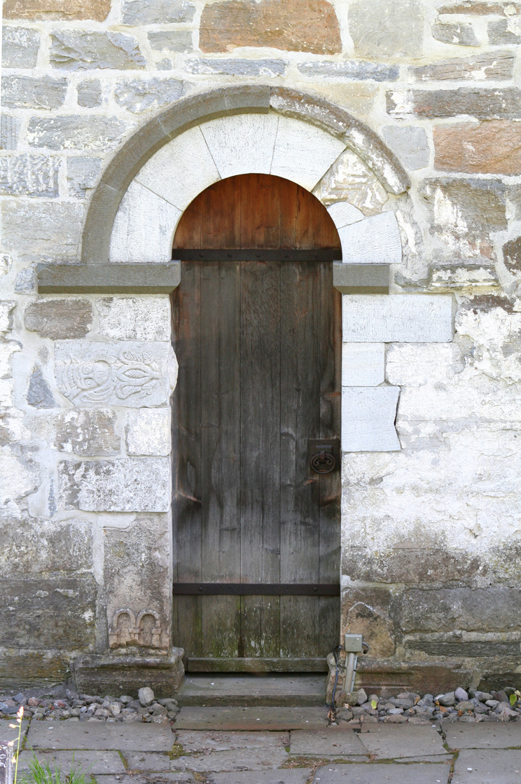 Portal at Sakshaug gamle kirke. Note the demon masks at the left side of the portal. The photographer, Morten Dreier, should always be credited.